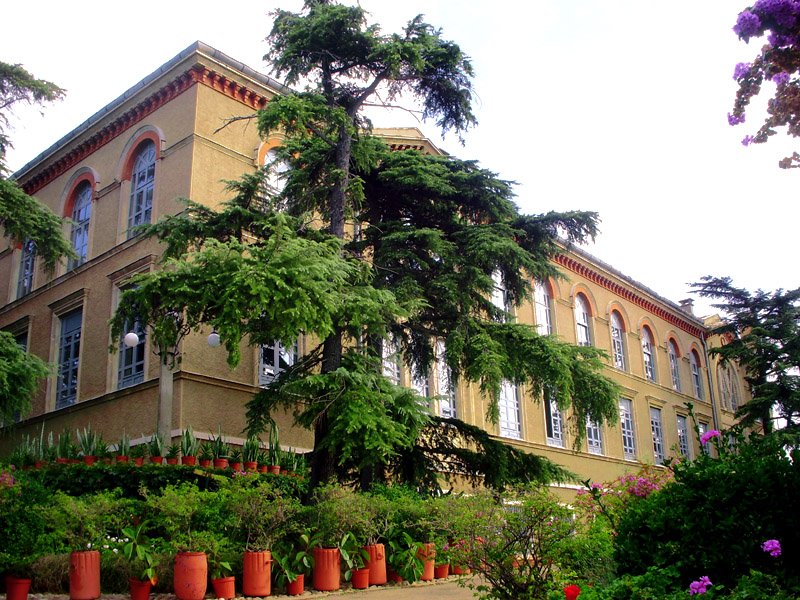 Theological School of Halki